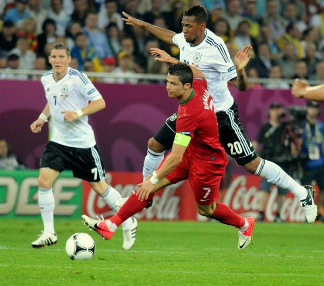 Match between Germany and Portugal during UEFA Euro 2012 that took place in Lviv. Final score was 1:0 (Gómez). Bastian Schweinsteiger (left), Jérôme Boateng (back right), Cristiano Ronaldo (front right).